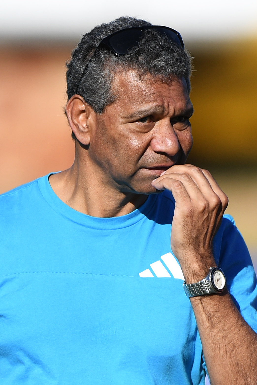 Gilbert McAdam during Melbourne training at Traeger Park on Saturday, 20 July 2019 in Alice Springs, Northern Territory.